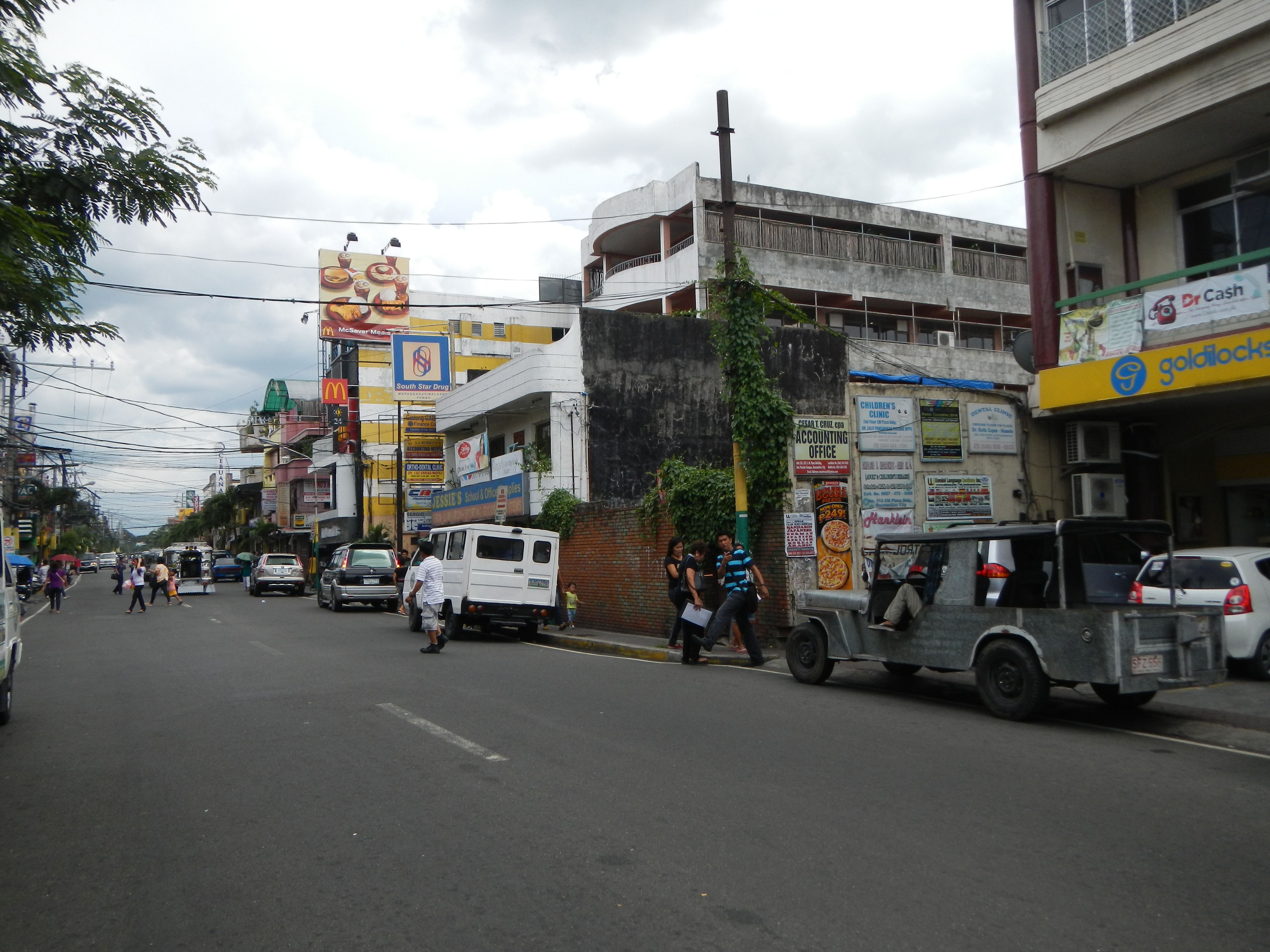 Dasmariñas [1] Website, officially the City of Dasmariñas (often shortened to Dasma; Filipino: Lungsod ng Dasmariñas) is the largest city, both in terms of area and population in the province of Cavite, Philippines. Website Immaculate Conception[2]---------[N.B. June 7, 1st Friday, 2013 Photography of - From Bulacan at 9:05 a.m., I took photo of Dasmariñas [3] City at 12:49 pm, the Aguinaldo Highway, then, at 3:35 pm, I took photo of Carmona, Cavite [4] - I finished San Lazaro Carmona Race Track, Carmona Welcome Arch and Binan Laguna Welcome Arch and Araneta Coliseum Quezon City at 8:31 p.m. and started uploading via slow internet next day June 8, 2013 at 6:59 pm - I hereby certify that these rarest, raw, original and unedited photos are exclusive for Commons and Wikipedia never uploaded in any Internet or any site, and for the public domain without any condition.]---------[N.B. June 7, 1st Friday, 2013 Photography of - From Bulacan at 9:05 a.m., I took photos of Dasmariñas [5] City at 12:49 pm, the Aguinaldo Highway, then, at 3:35 pm, I took photos of Carmona, Cavite [6] - I finished San Lazaro Carmona Race Track, Carmona Welcome Arch and Binan Laguna Welcome Arch and Araneta Coliseum Quezon City at 8:31 p.m. and started uploading via slow internet next day June 8, 2013 at 6:59 pm - I hereby certify that these rarest, raw, original and unedited photos are exclusive for Commons and Wikipedia never uploaded in any Internet or any site, and for the public domain without any condition.]